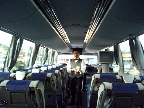 Each bus we took in Turkey had an internal service, refreshments (water, tea & coffe and biscuits were provided also a perfum to clean your hands). To provide this service buses has an attender.